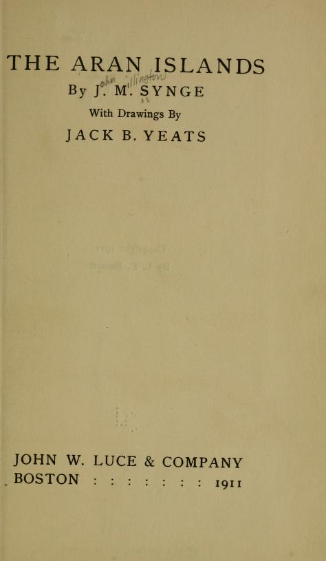 This is the title page of the book The Aran Islands, which was first published in 1907. This edition was published in 1911 by John W. Luce & Company of Boston and lists the book as "By J. M. Synge, With Drawings By Jack B. Yeats". On the title page someone has penciled in Synge's full name. On the lower portion of the page, above the publisher information, there is a light imprint punch stamp of the letters "LC", marking it as a holding of the Library of Congress.